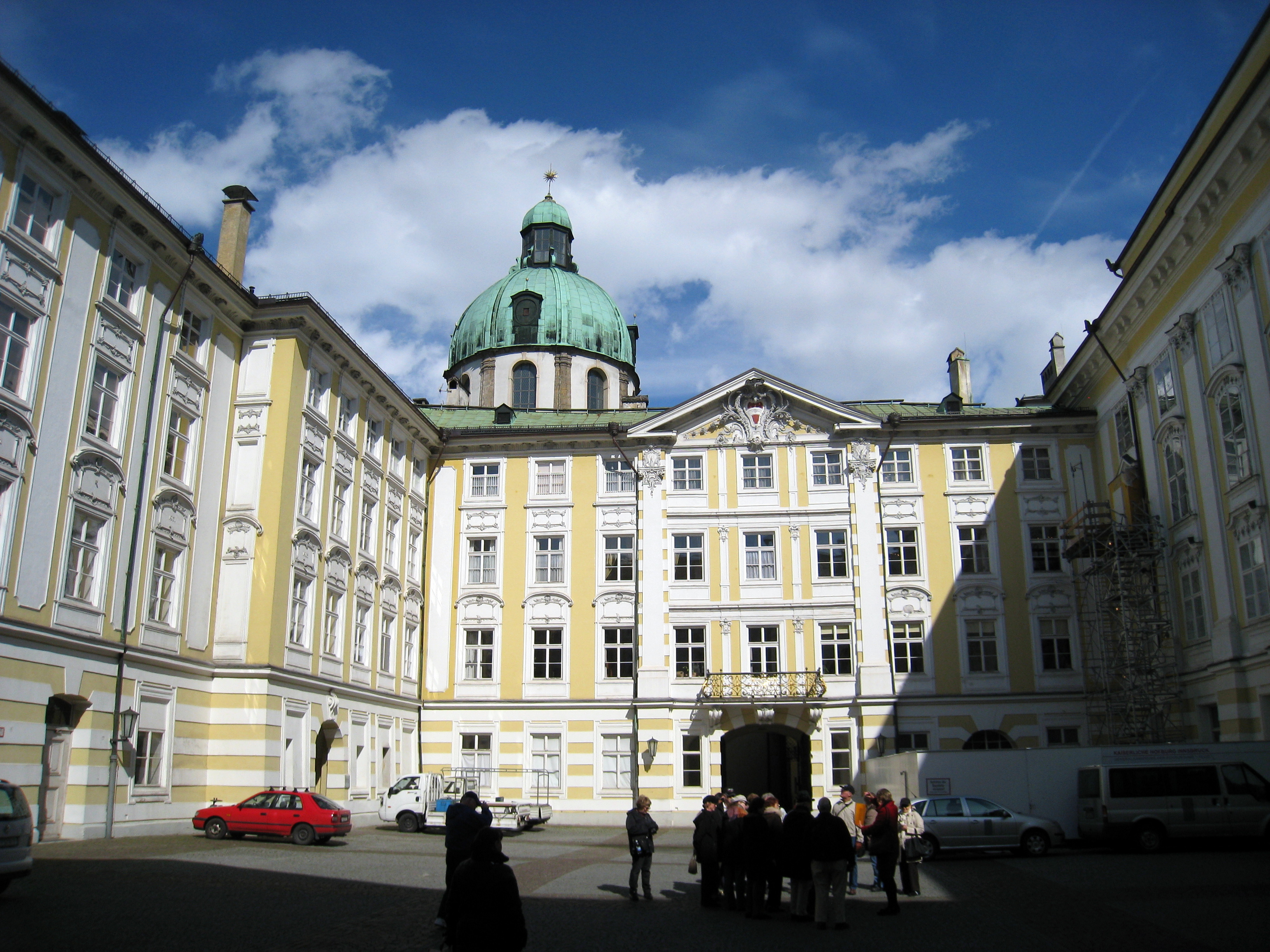 Innsbruck, Austria - Hofburg inner court.